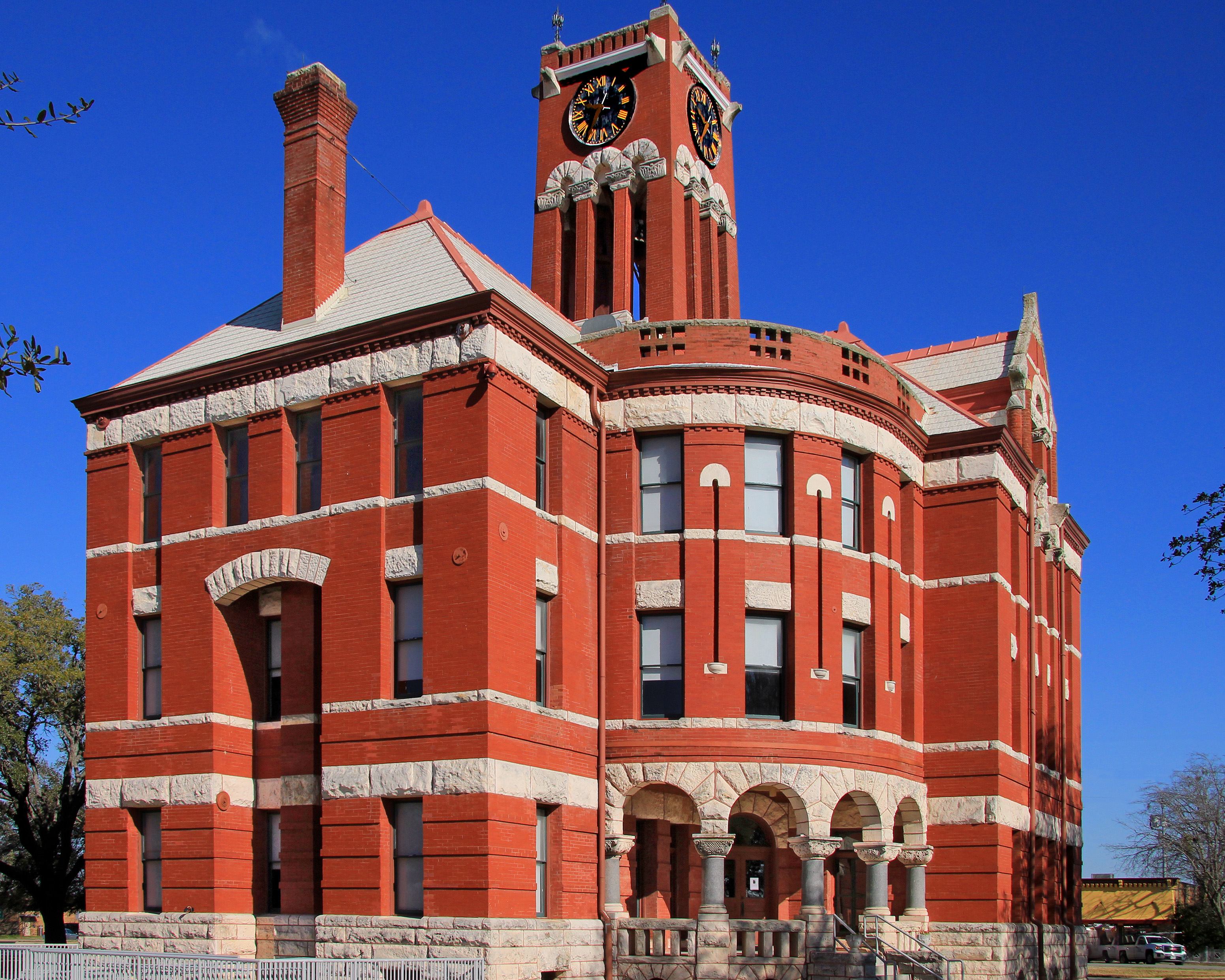 The Lee County, Texas courthouse located in, Giddings, Texas, United States. The courthouse was built in 1899 and is designed in the Richardsonian Romanesque style of architecture. The building was designated a Recorded Texas Historic Landmark in 1968 and was listed on the National Register of Historic Places on May 30, 1975.